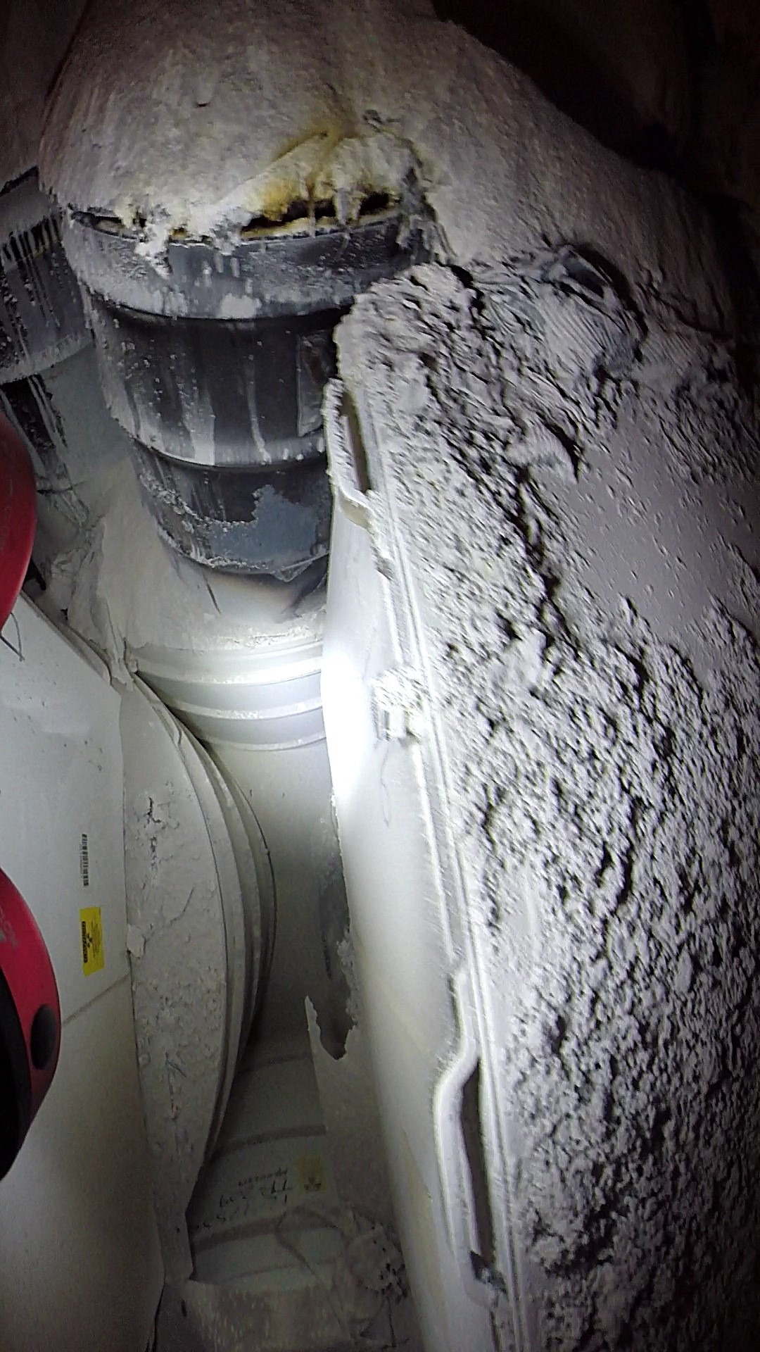 damaged drum with radioactive waste inside WIPP, New Mexico, USA. The picture was taken on 2014-05-15 during investigations for the cause of radioactive contamination. Site is Panel 7, Room 7. The picture shows a drum, that has obviously been damaged from the inside due to a chemical reaction causing heat. The theory is, that organic cat litter was used in one batch of drums from the Los Alamos facility, where only anorganic cat litter is permitted due to different reactions to the chemicals inside the drums.